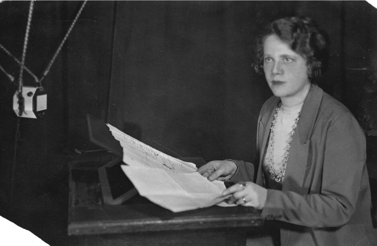 Elga Kern in Polish Radio (1931)